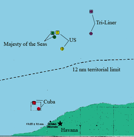 The map shows the locations where the two planes of Brothers to the Rescue were reportedly shot down by Cuban MIG on February 24, 1996. Finding many inconsistencies in US and Cuban data, the ICAO investigation determined the most likely location to be that determined from information from the ship "Majesty of the Seas". Map is redrawn and adapted from maps and information in ICAO: "Report on the shooting down of two U.S.-registered private civil aircraft by Cuban military aircraft on 24 February 1996", C-WP/10441, June 20, 1996, United Nations Security Council document, S/1996/509, July 1, 1996, [1]